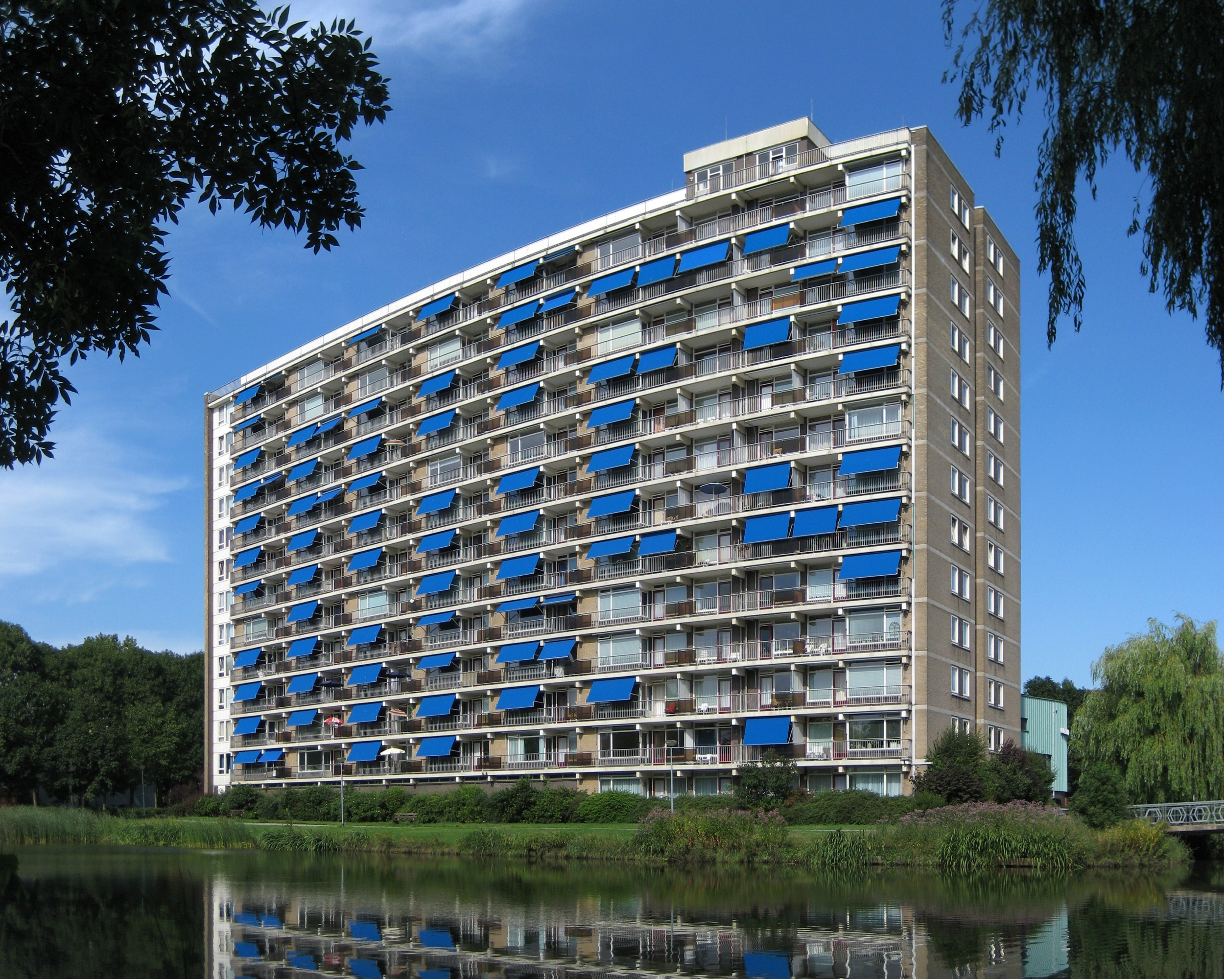 The Vondelflat, an apartment building complex in the Dutch city of Groningen.